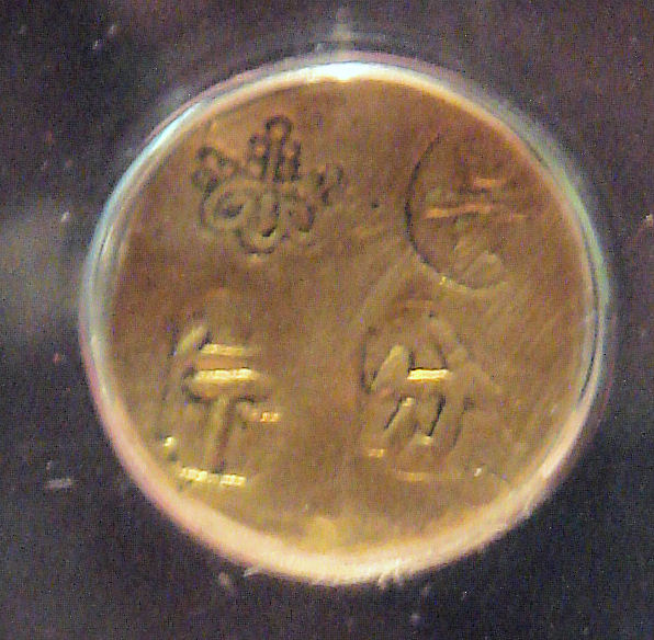 Koshukin, Japan